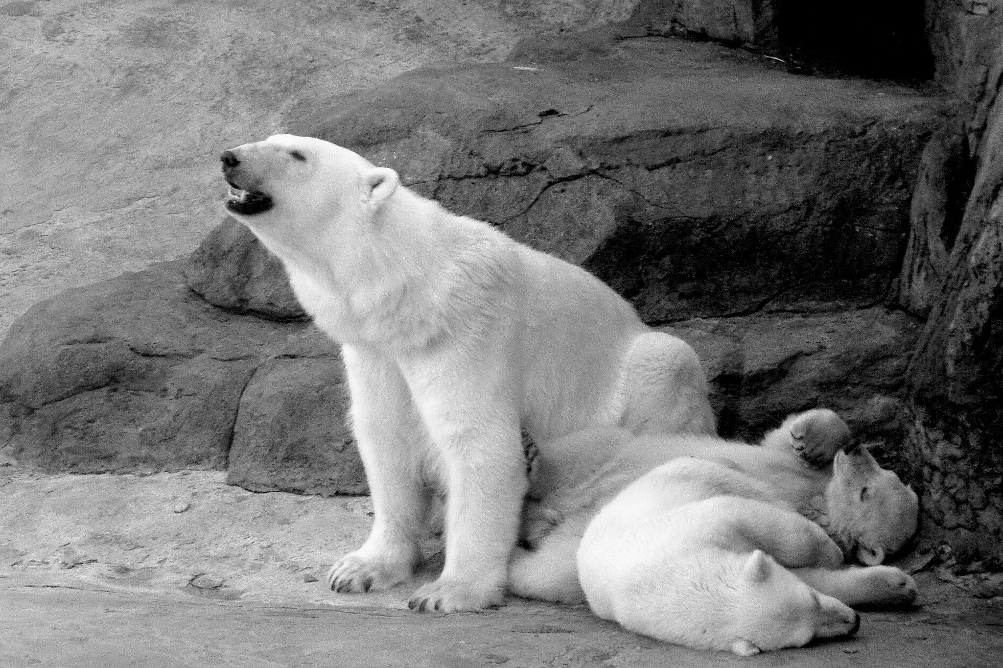 Polar bear with cubs (Moscow zoo)